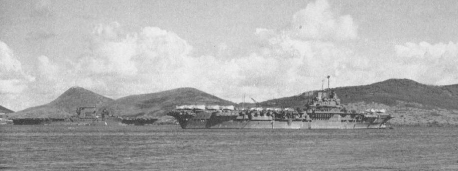 The aircraft carriers USS Saratoga (CV-3) (left) and HMS Victorious (R38) (right) at anchor at Noumea, New Caledonia, in 1943. Victorious operated with the Saratoga in the south-west Pacific from May to September 1943. During this time, she was code named (not renamed) as USS Robin, for signals purposes, derived from the character "Robin Hood".